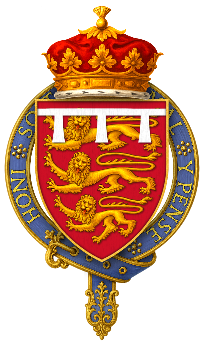 Sir John Mowbray, 3rd Duke of Norfolk, KG HOPE, W. H. St. John, The Stall Plates of the Knights of the Order of the Garter 1348 – 1485: A Series of Ninety Full-Sized Coloured Facsimiles with Descriptive Notes and Historical Introductions, Westminster: Archibald Constable and Company LTD, 1901. “ Sir John Mowbray, Duke of Norfolk and Earl Marshal, K.G. 1421-1432.. the arms, gules three leopards gold and a label silver. ” Norfolk's stall plate remains intact within the fifth stall, on the Sovereign's side of the chapel.